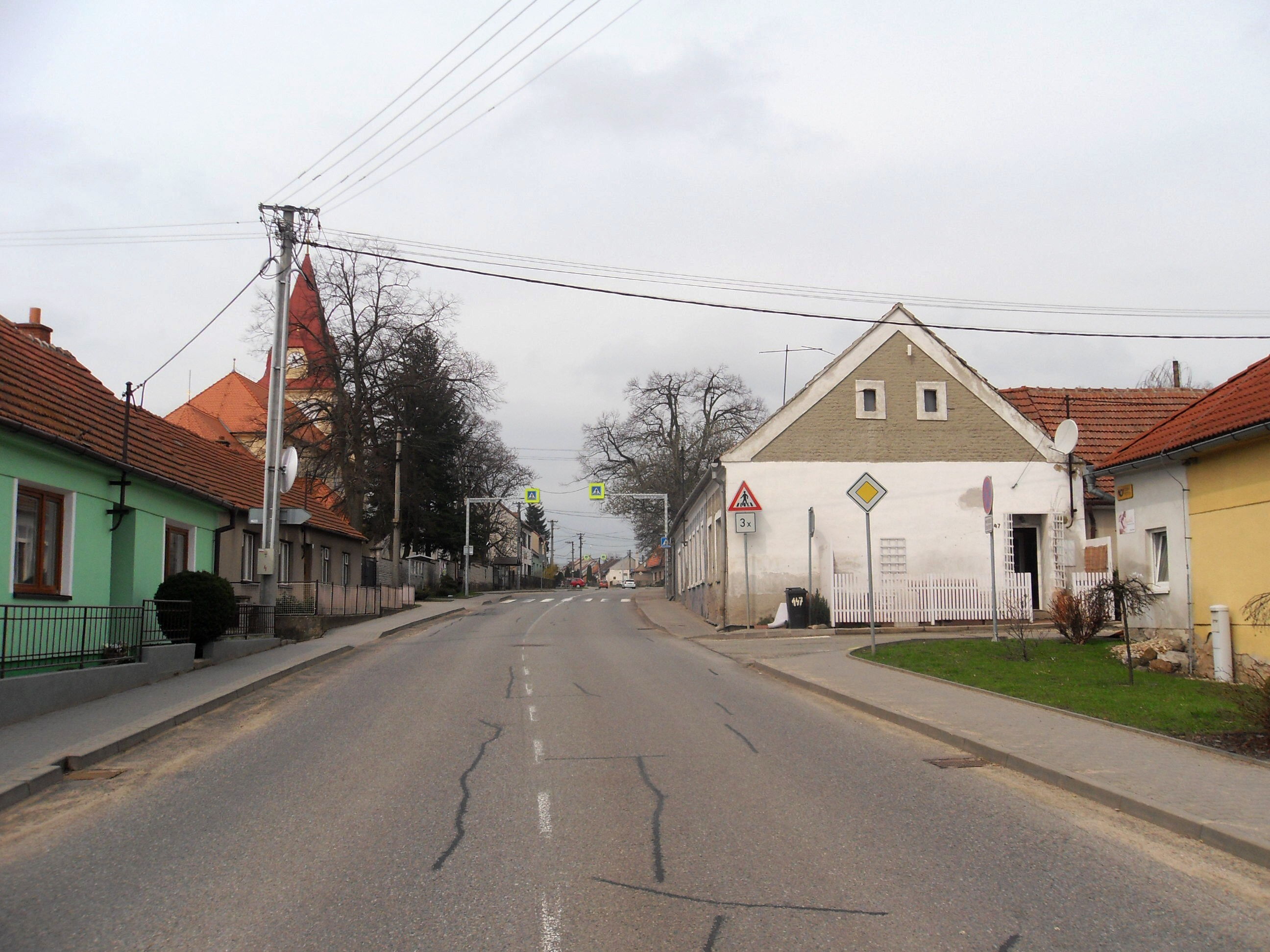 Road I/23, Vysoké Popovice, Brno-Country District, Czech Republic